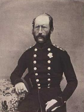 Christian Løvenfeldt (1803-1866), Danish Major and courtier